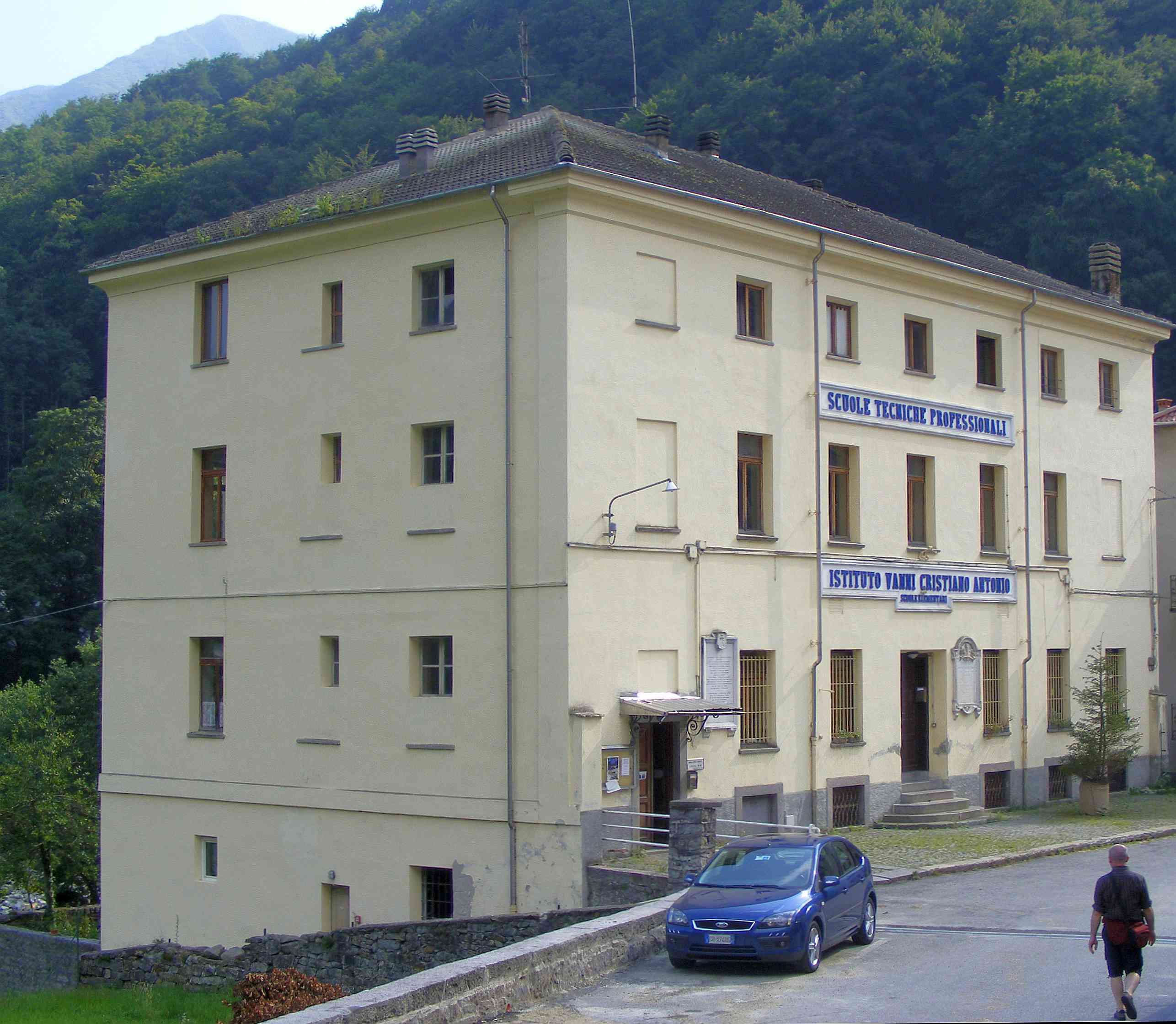 Campiglia Cervo (BI, Italy): technical school